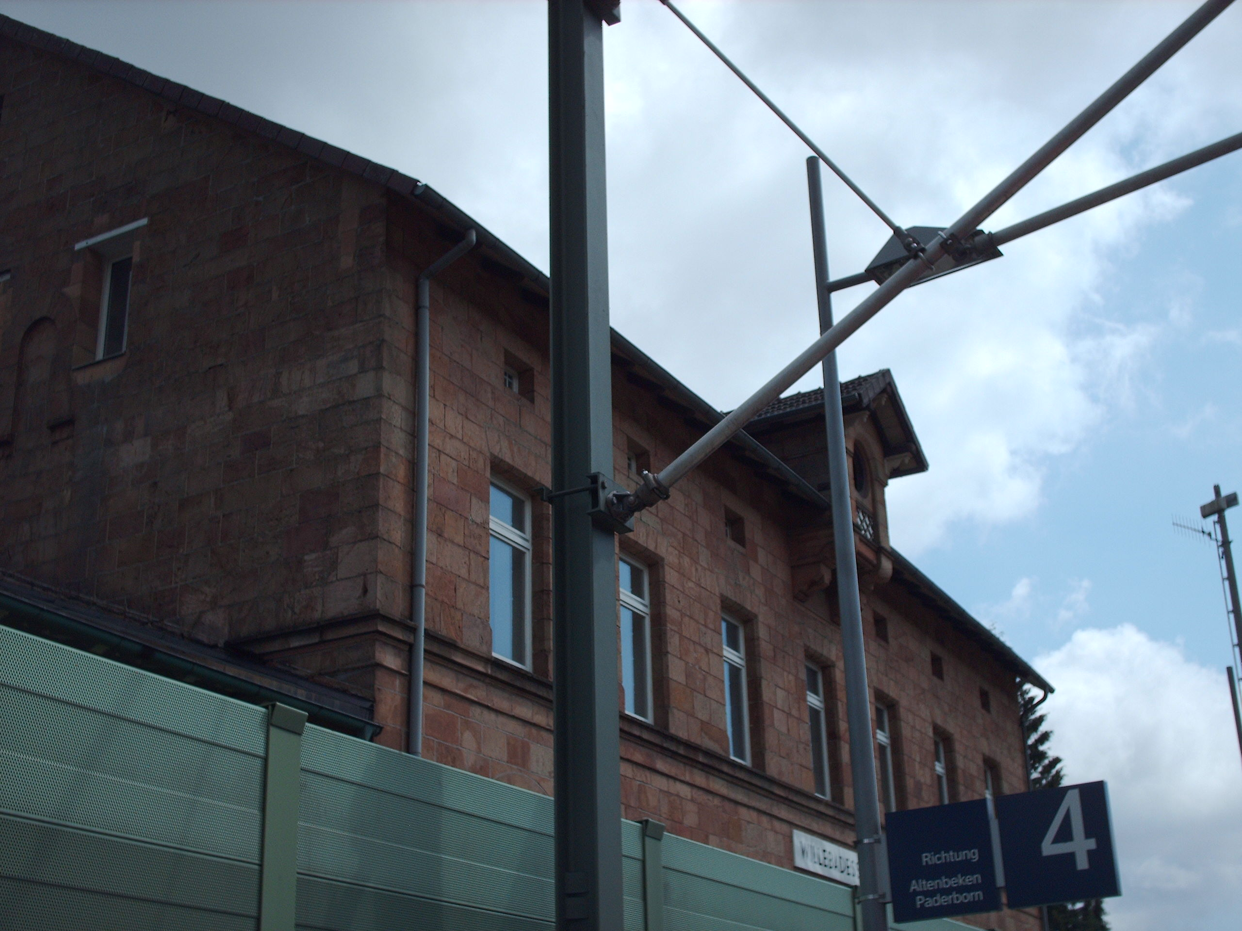 Willebadessen station, Willebadessen, Germany check usage